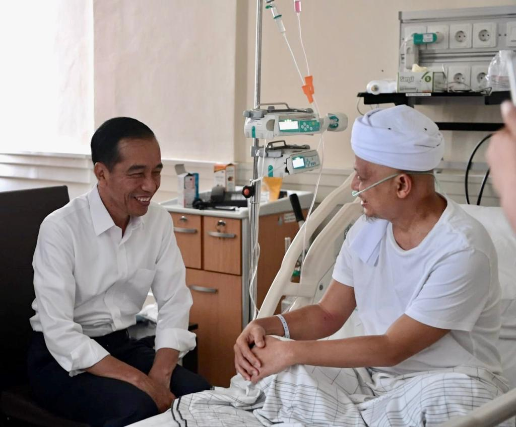 President Joko Widodo prayed for healing for Ustaz Arifin Ilham who is being treated at Cipto Mangunkusumo Hospital (RSCM), Jakarta, January 9, 2019.